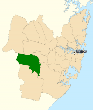 Incorporates or developed using Administrative Boundaries ©PSMA Australia Limited licensed by the Commonwealth of Australia under Creative Commons Attribution 4.0 International licence (CC BY 4.0). Derived from State and Territory Boundaries from the Australian Bureau of Statistics under Creative Commons Attribution 2.5 Australia license (CC BY 2.5 AU)